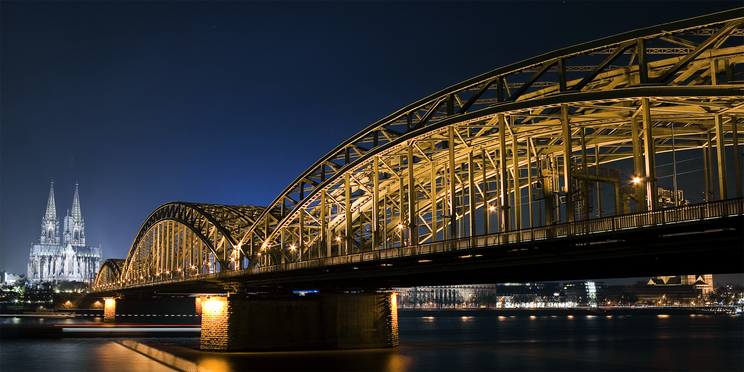 The Cologne Hohenzollernbrücke and the Cologne Cathedral.